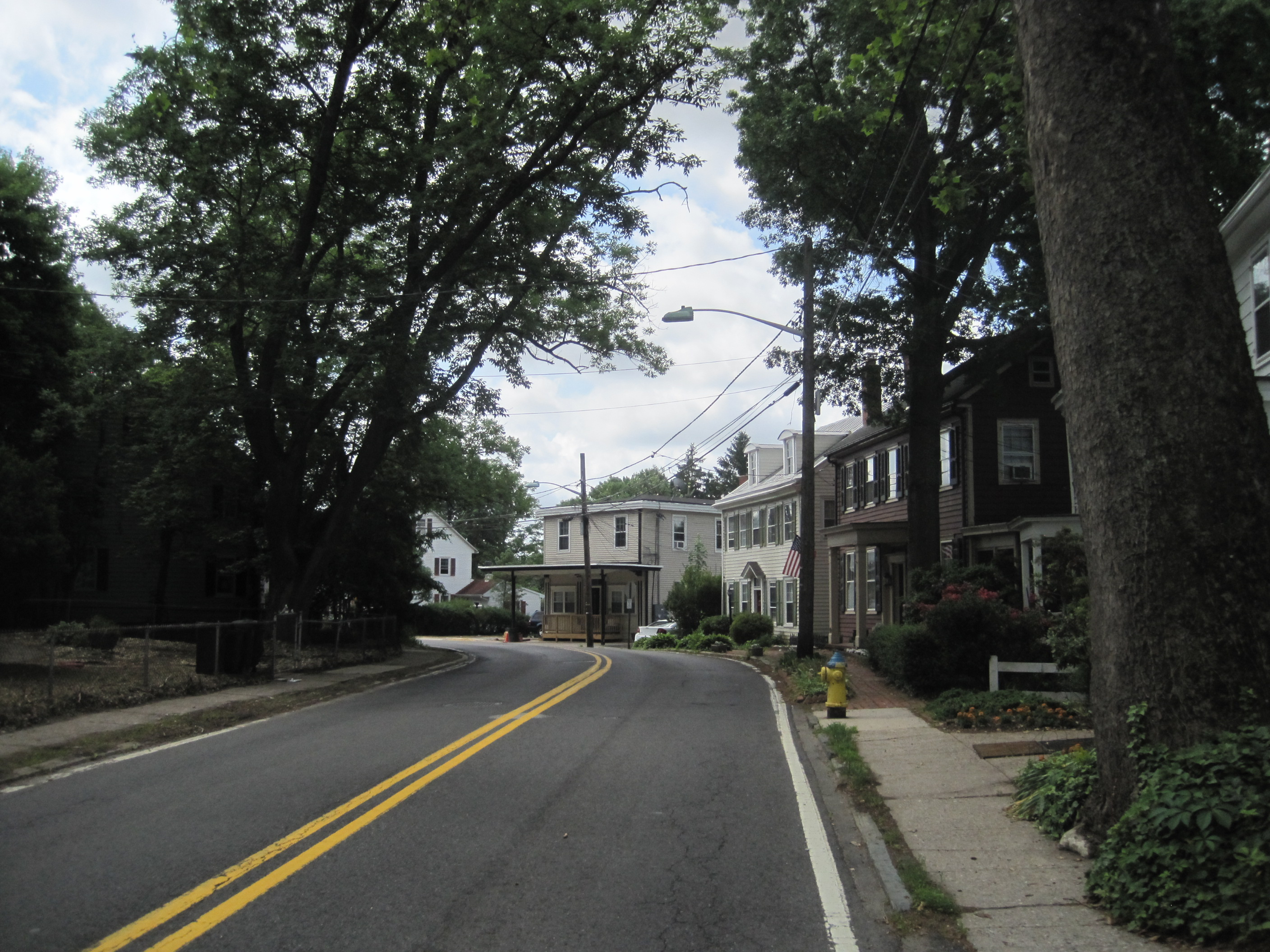 Photo of the unincorporated community of Crosswicks, New Jersey within Chesterfield Township. Photo taken on southbound Main Street (Old York Road/County Route 660) approaching Ellisdale Road.